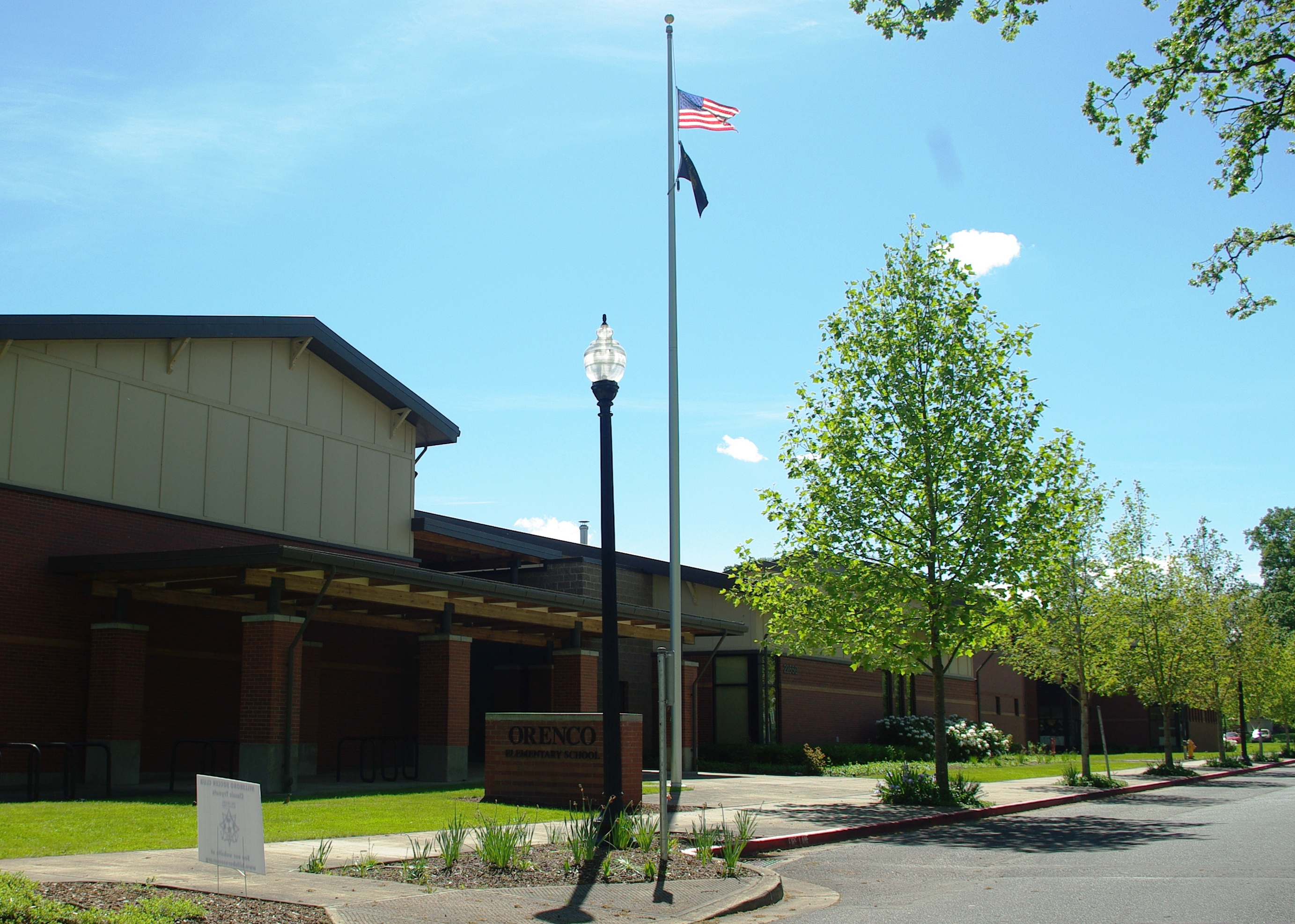 Orenco Elementary School in Hillsboro, Oregon, USA.